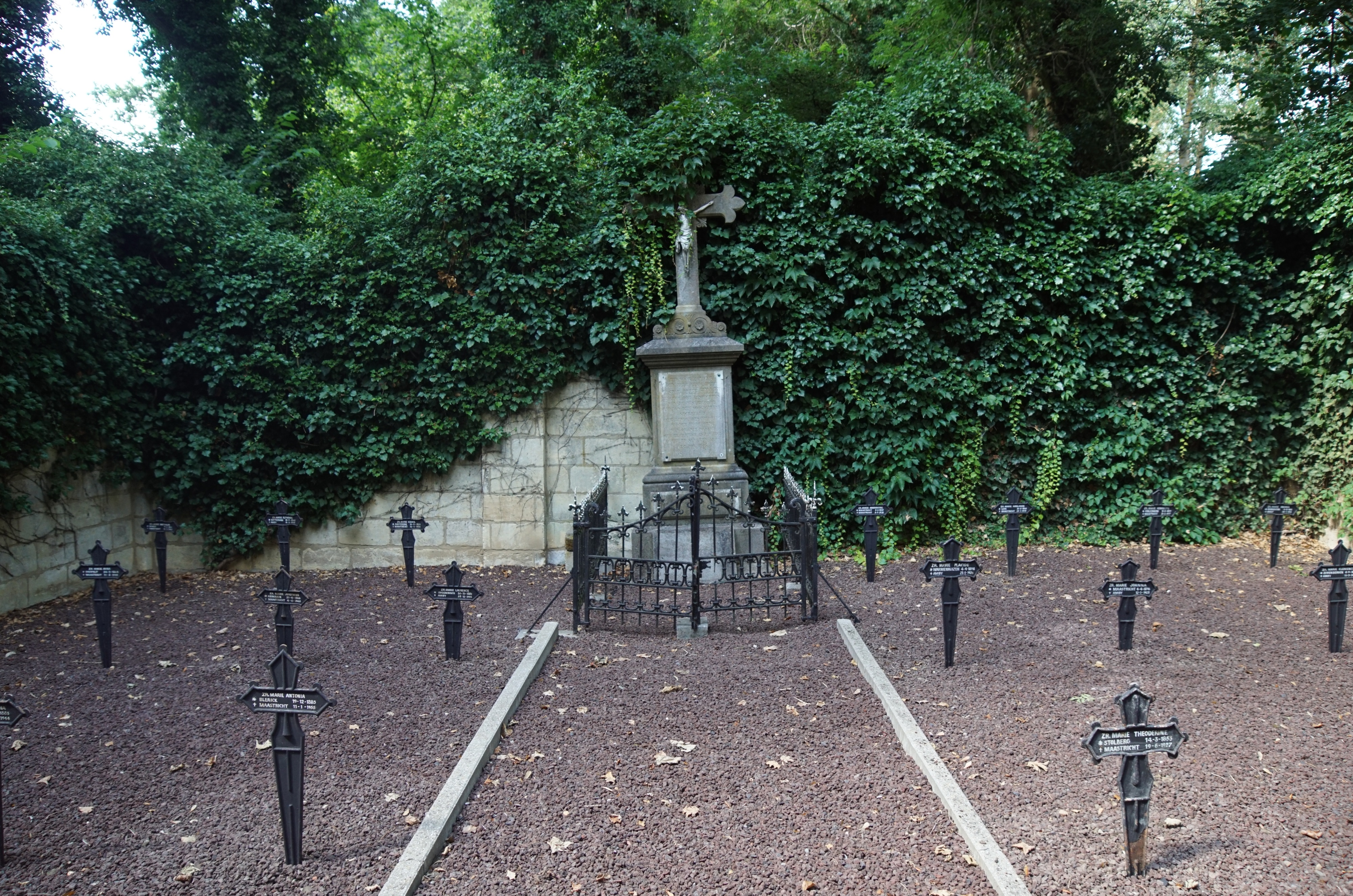 Severenstraat near 200, Maastricht, The Netherlands. Cemetery of Zusters van Barmhartigheid.